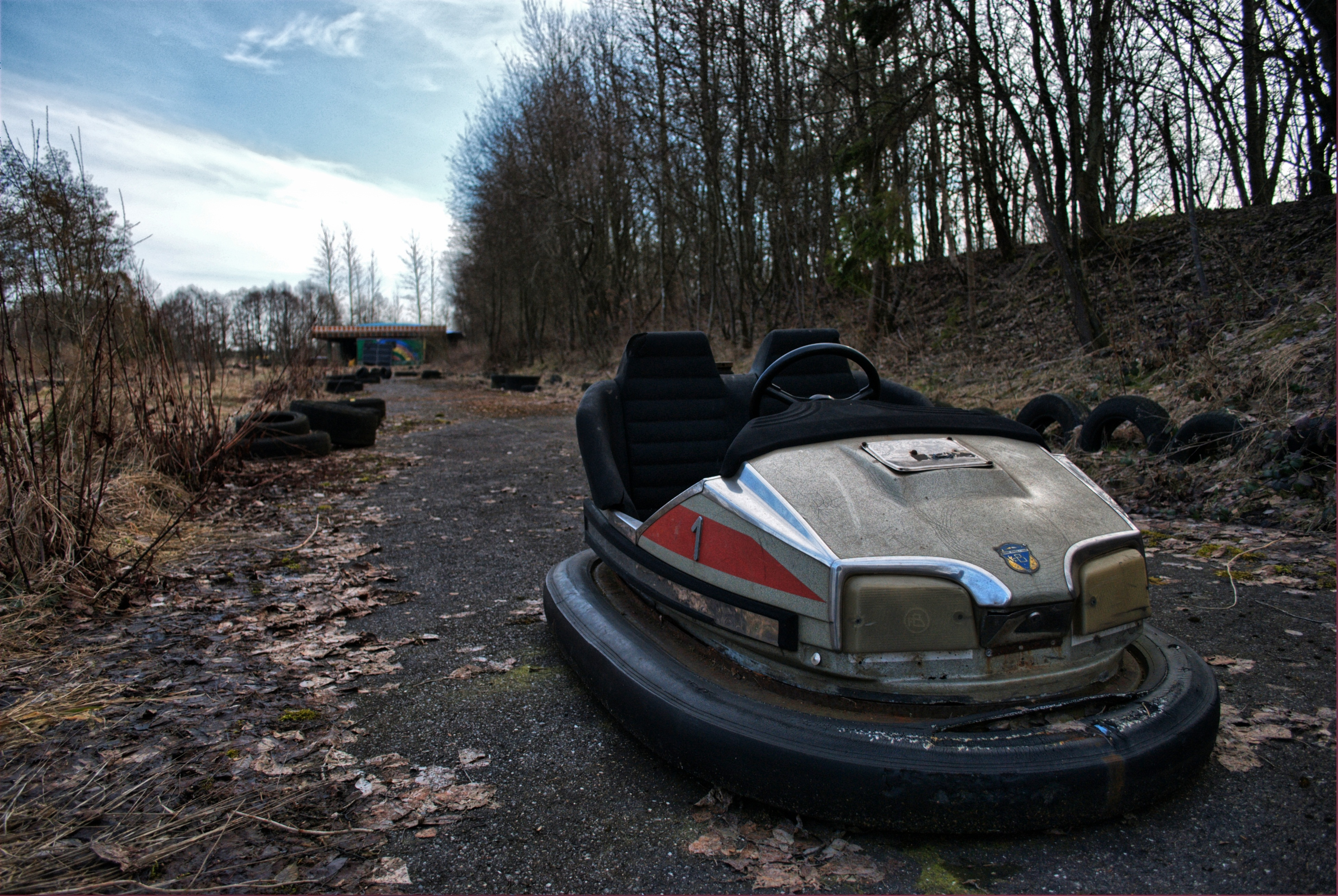 Disused bumper car